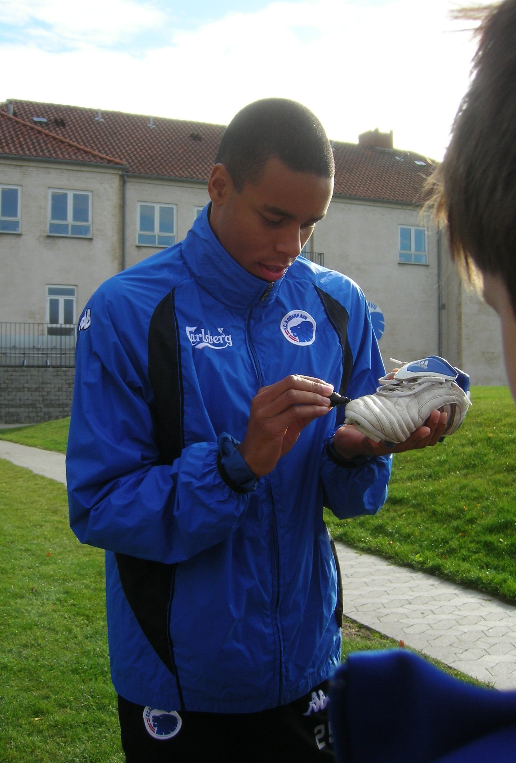 Matthias "Zanka" Jørgensen